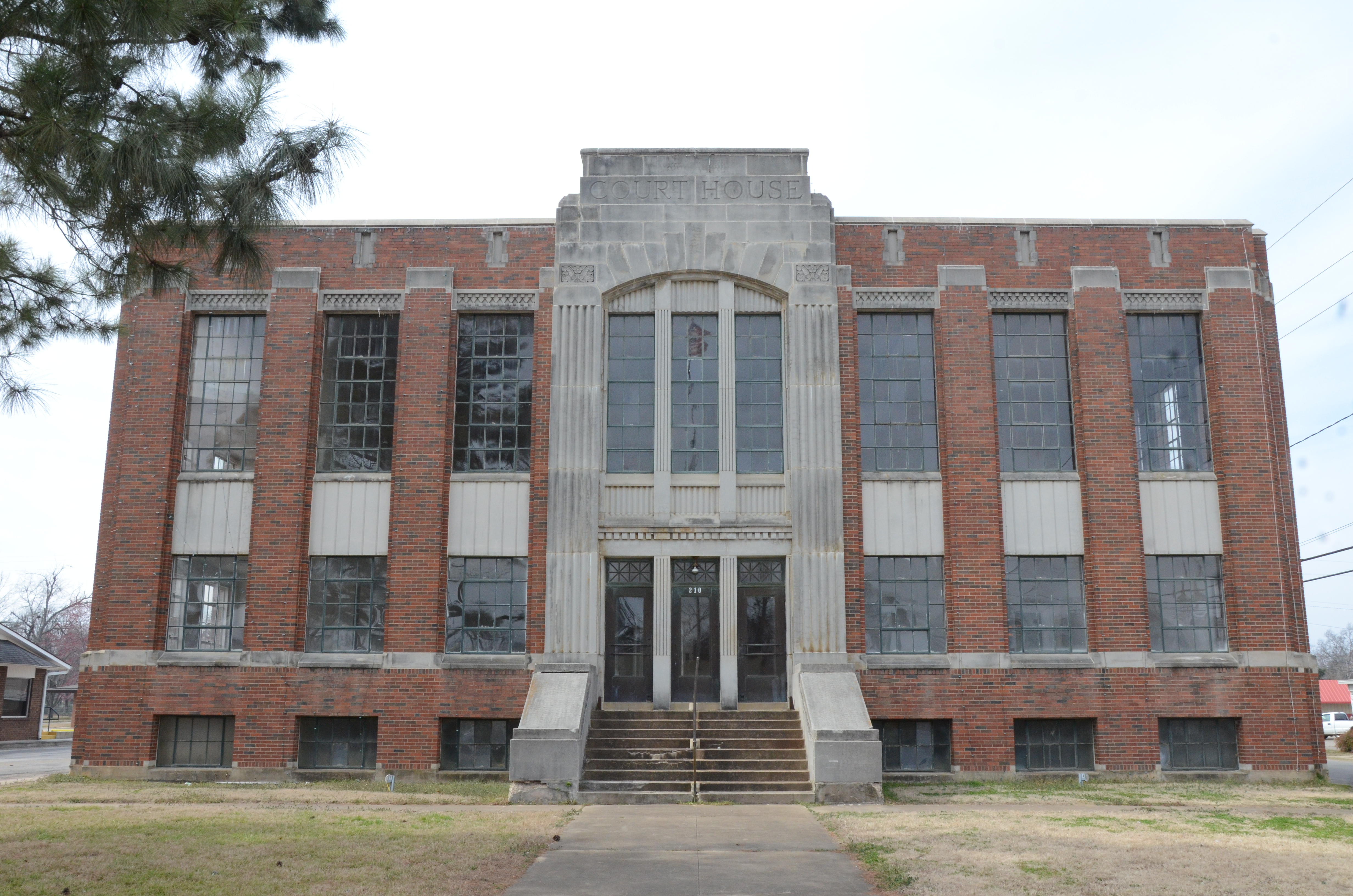 Scott County Courthouse